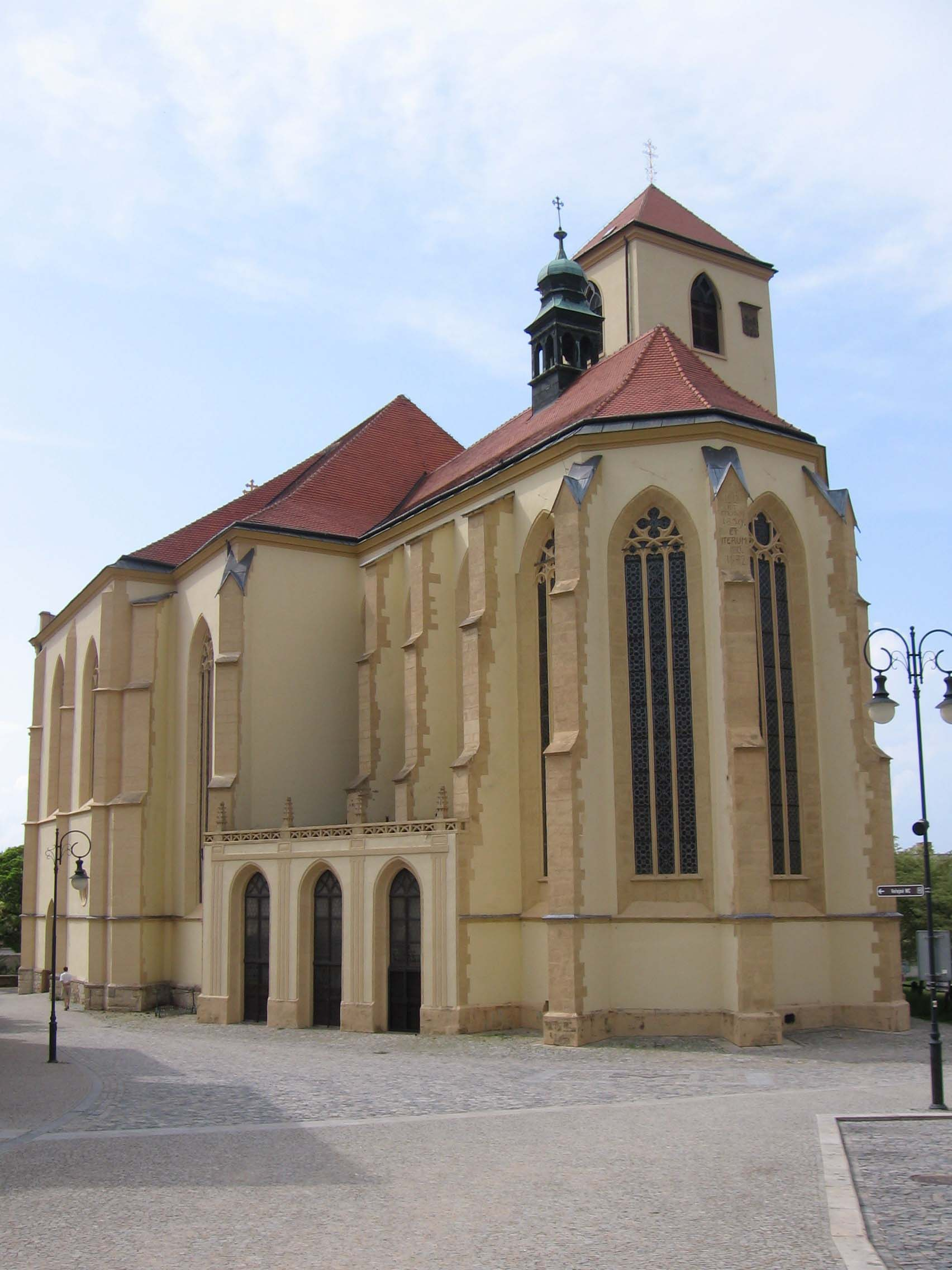 Church of St James the Great in Boskovice, Czech Republic.